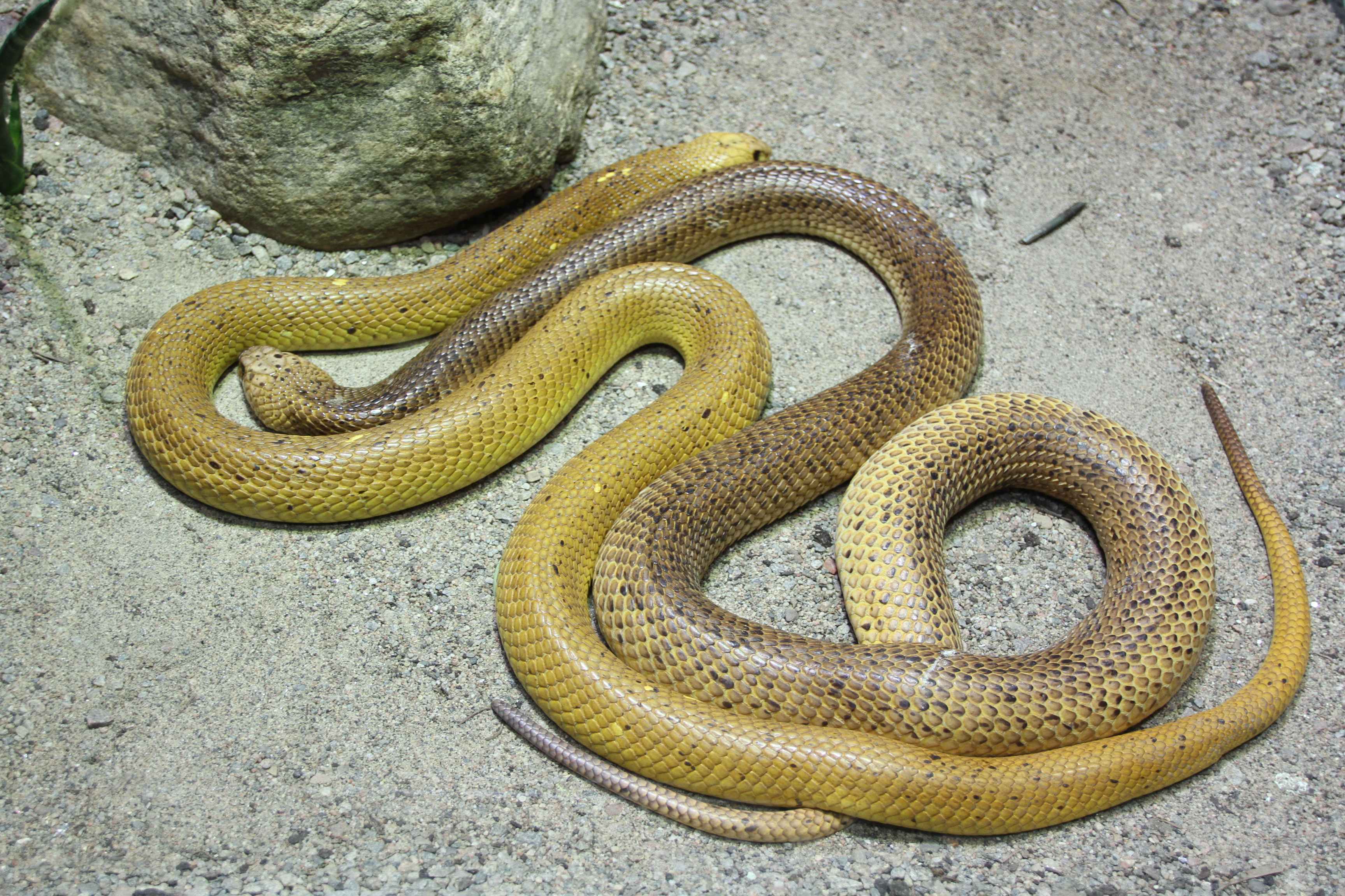 Naja nivea (Cape Cobra) in the Universeum Science Park, Gothenburg (Sweden).